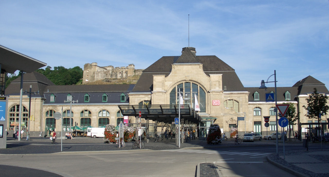 Koblenz Central Station